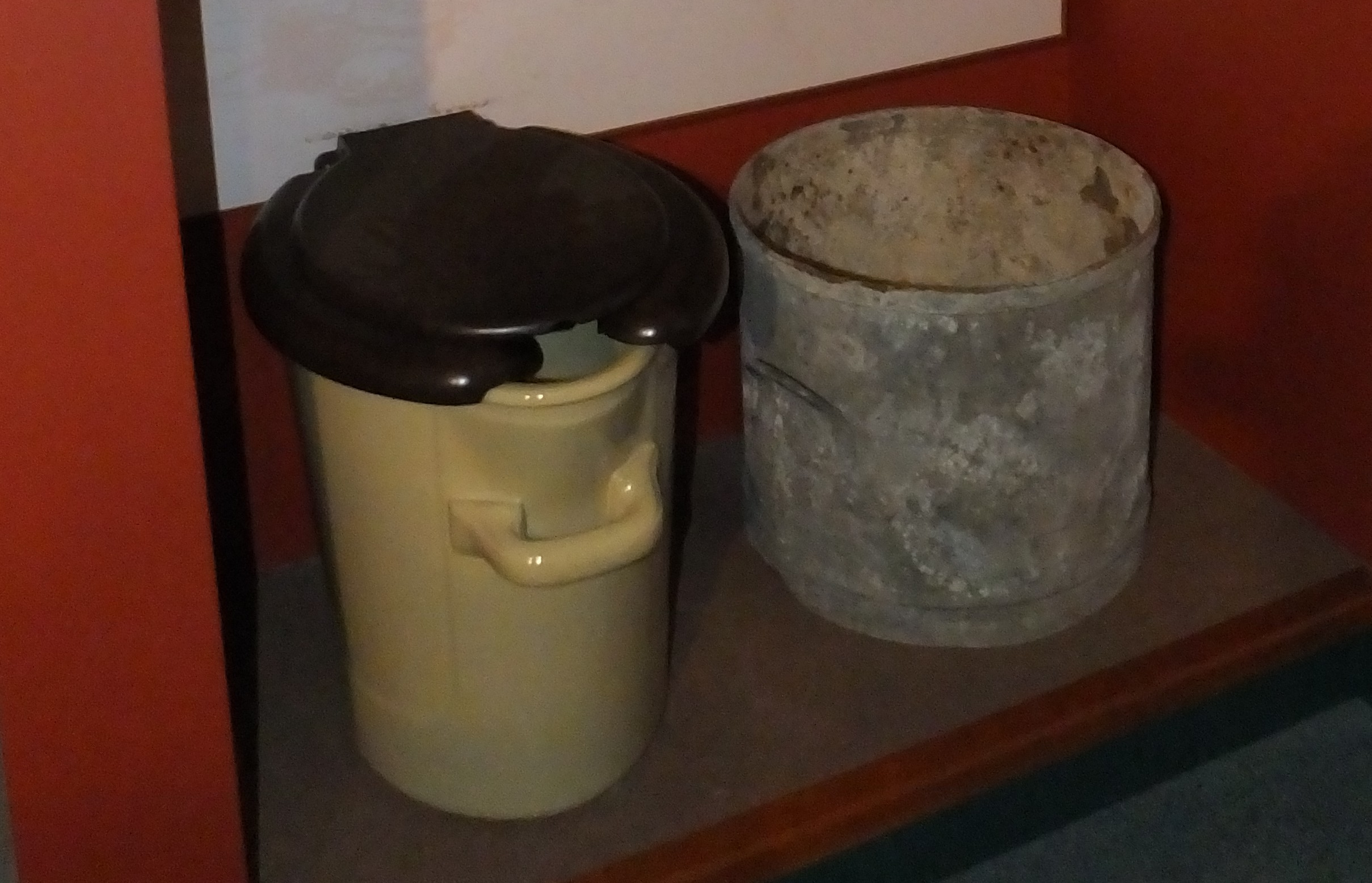 The Gladstone Pottery Museum The Gladstone Pottery Museum is a grade II* listed site in Stoke-on-Trent, with many protected features including the bottle kilns. There is a gallery devoted to the development of the water closet, and its manufacture.